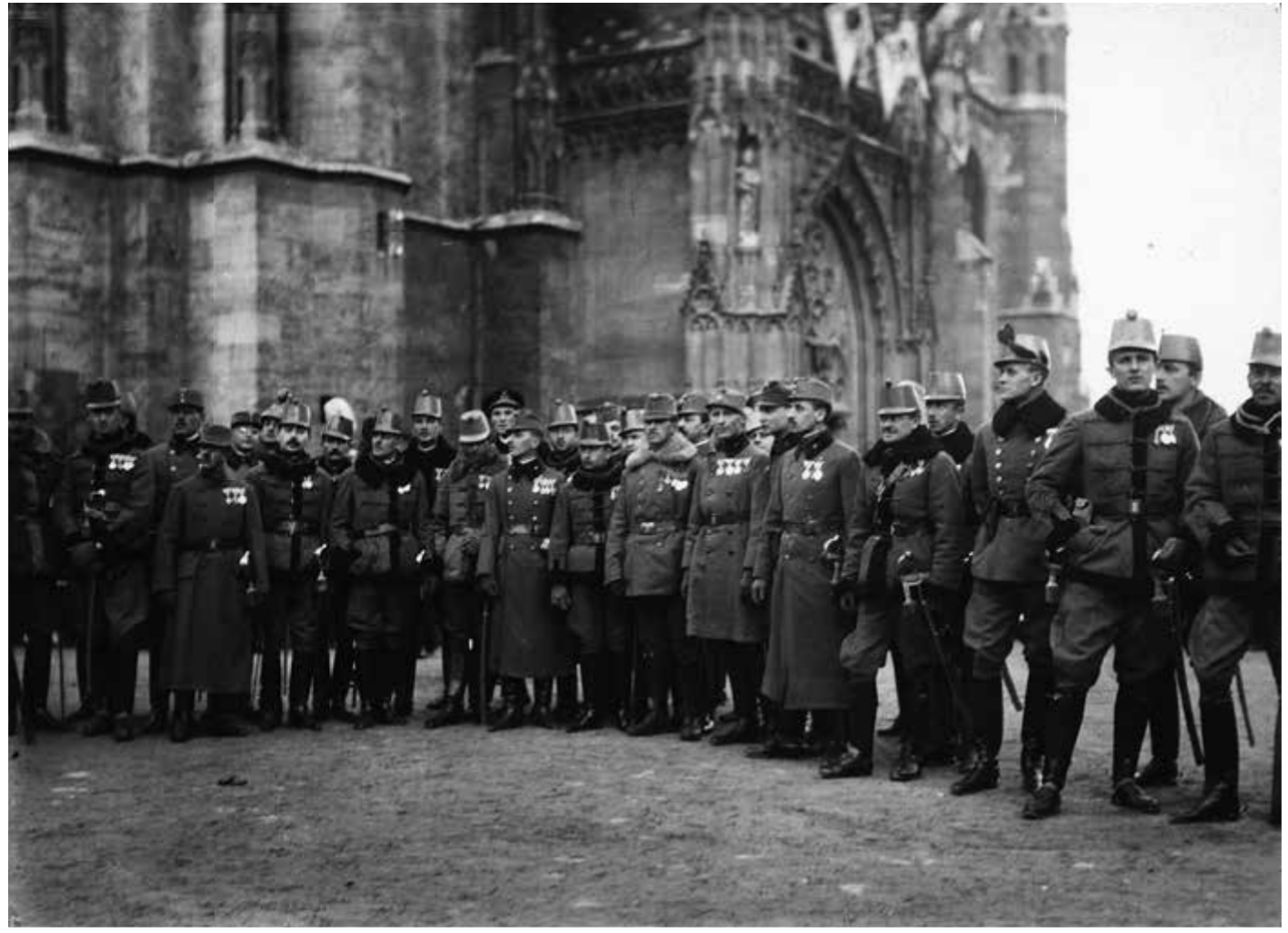 Knights of golden spur in front of the Mathias Church, Budapest, 30. December 1916